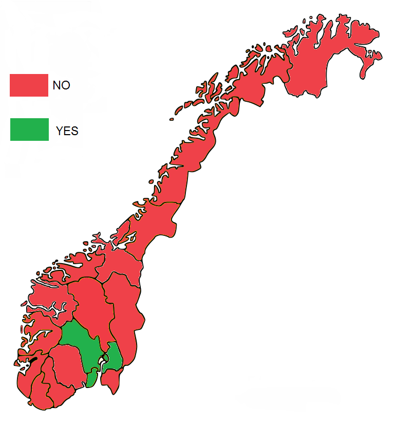 Norwegian European Union membership referendum, 1972 result by provinces. Green is YES, Red is NO